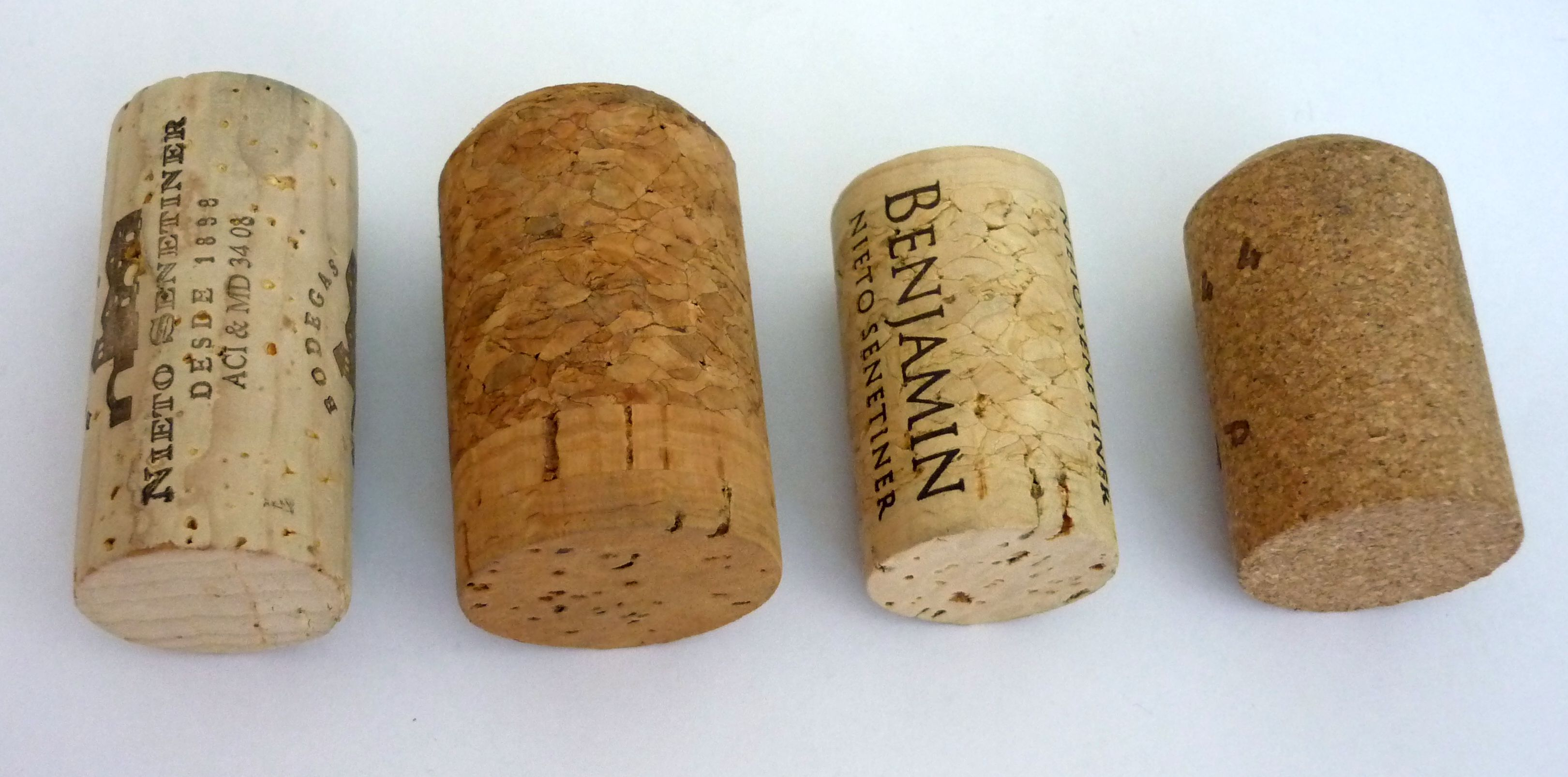 Corks for bottle closure. From left: natural cork agglomerated cork body with two natural cork disc glued on one end agglomerated cork body with a natural cork disc glued on each end micro-agglomerated cork